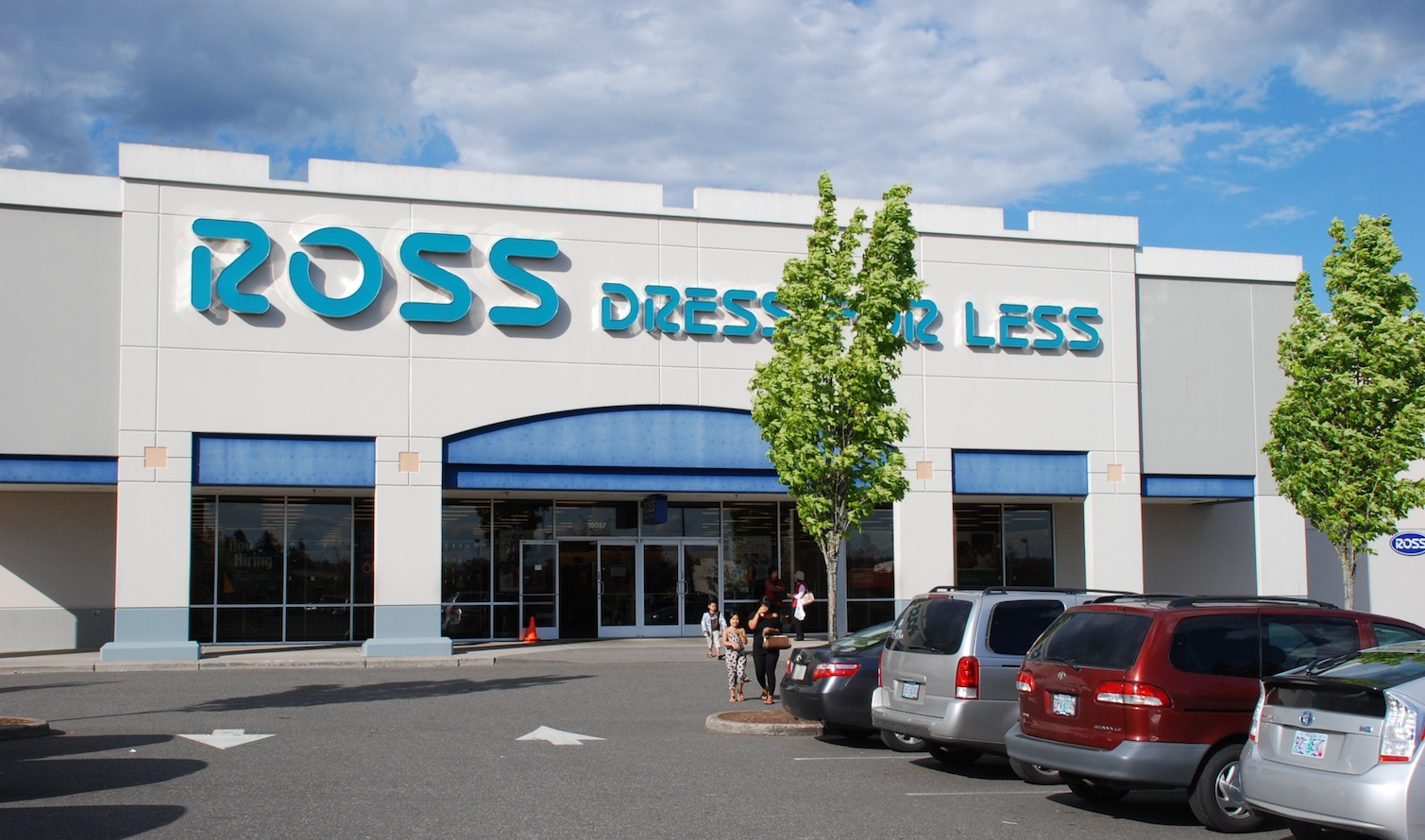 Ross "Dress for Less" clothing store in Tanasbourne Town Center, in eastern Hillsboro, Oregon.